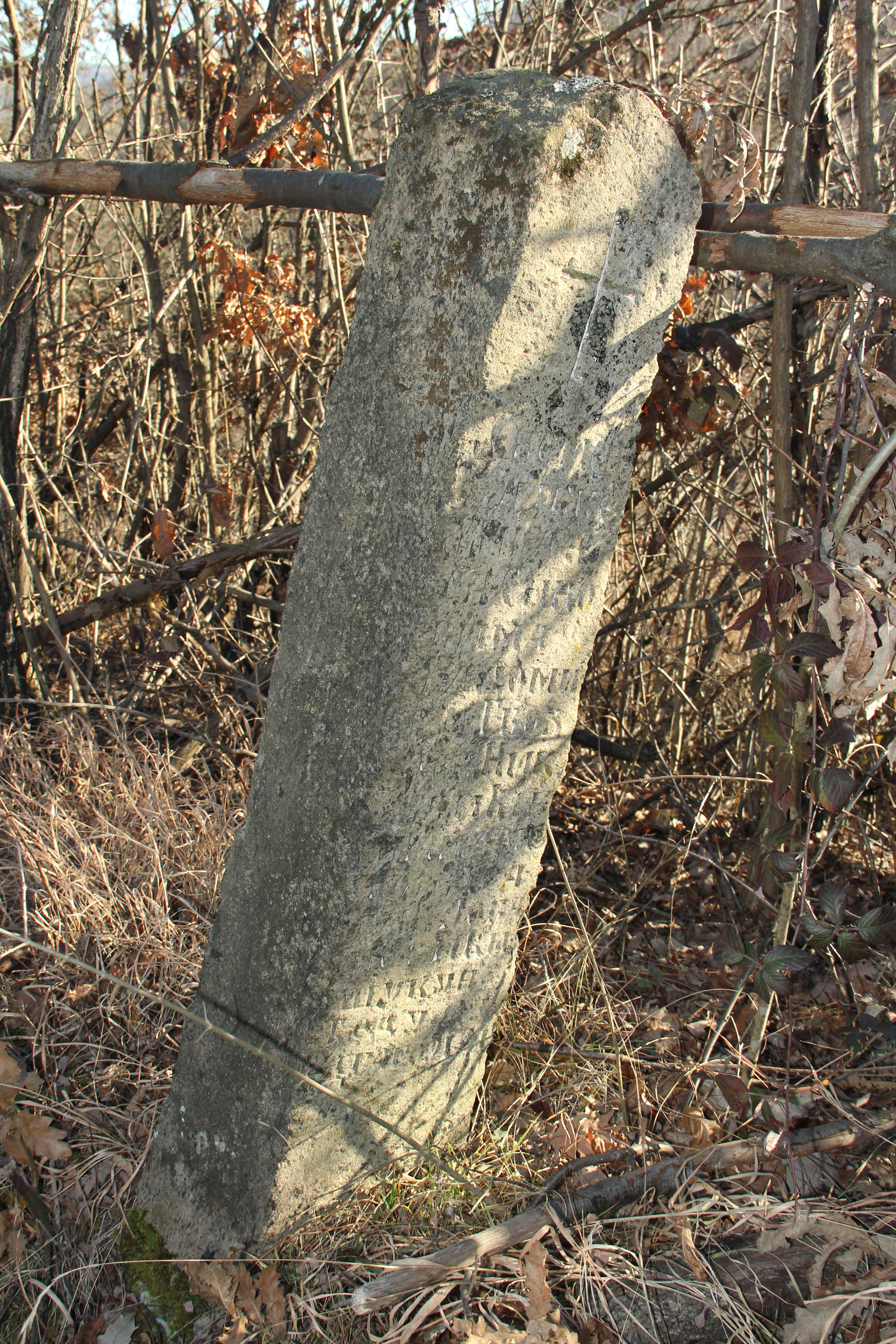 Gravestone erected in memory of Jacim Petrovic in the village of Dragolj (municipality of Gornji Milanovac), Serbia.